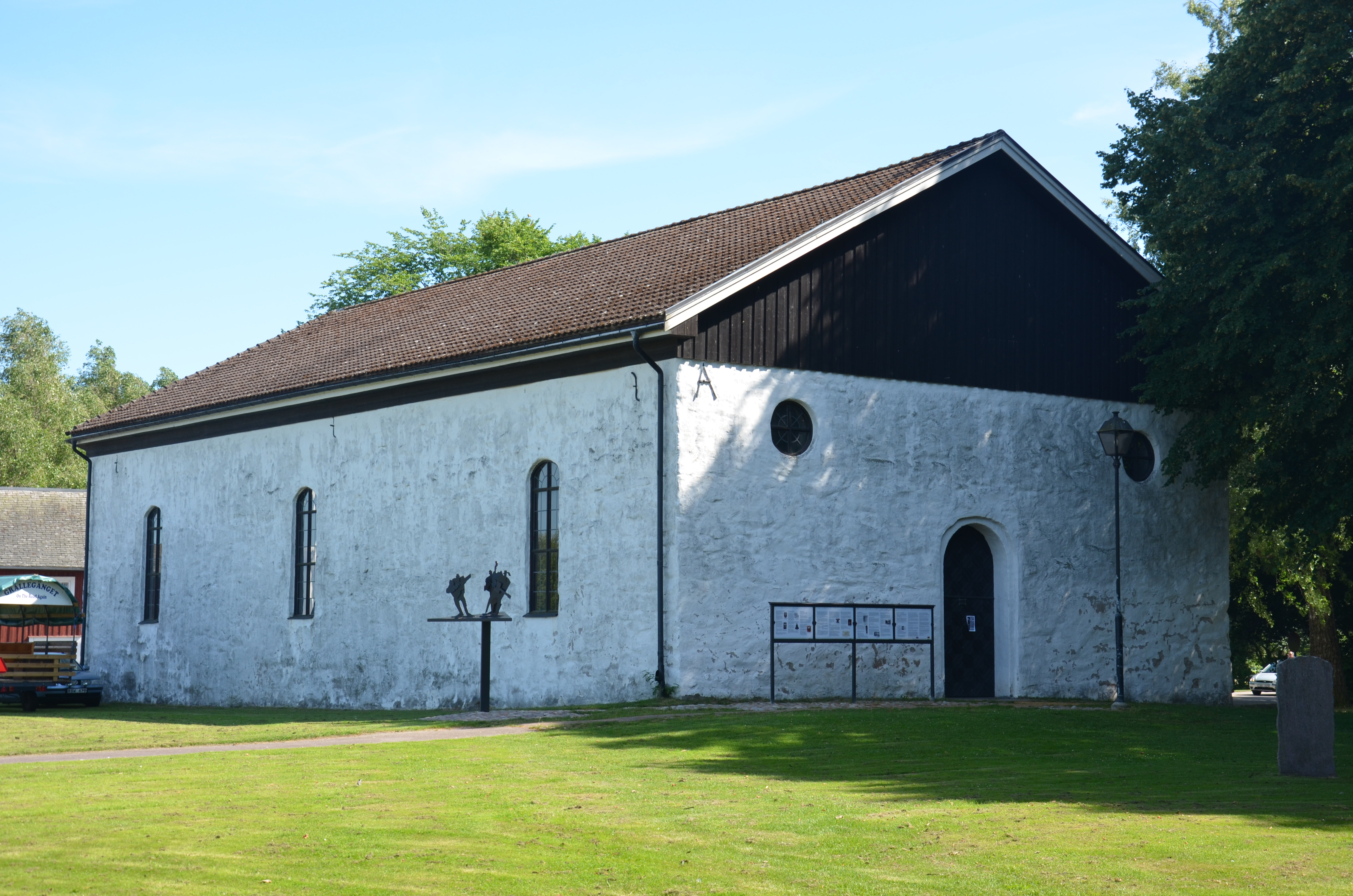 Gamla kyrkan i Åmål